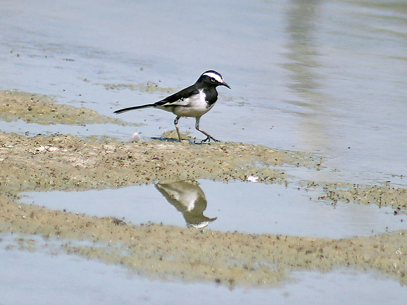 White-browed Wagtail Motacilla maderaspatensis in Bhopal, Madhya Pradesh, India